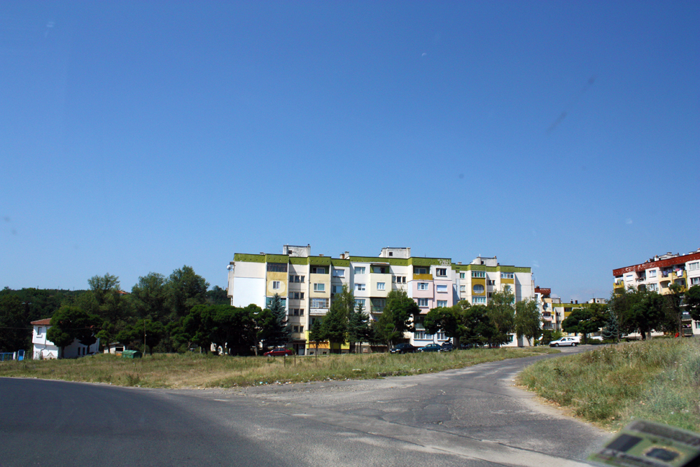 A living area in Dzhebel from communist time